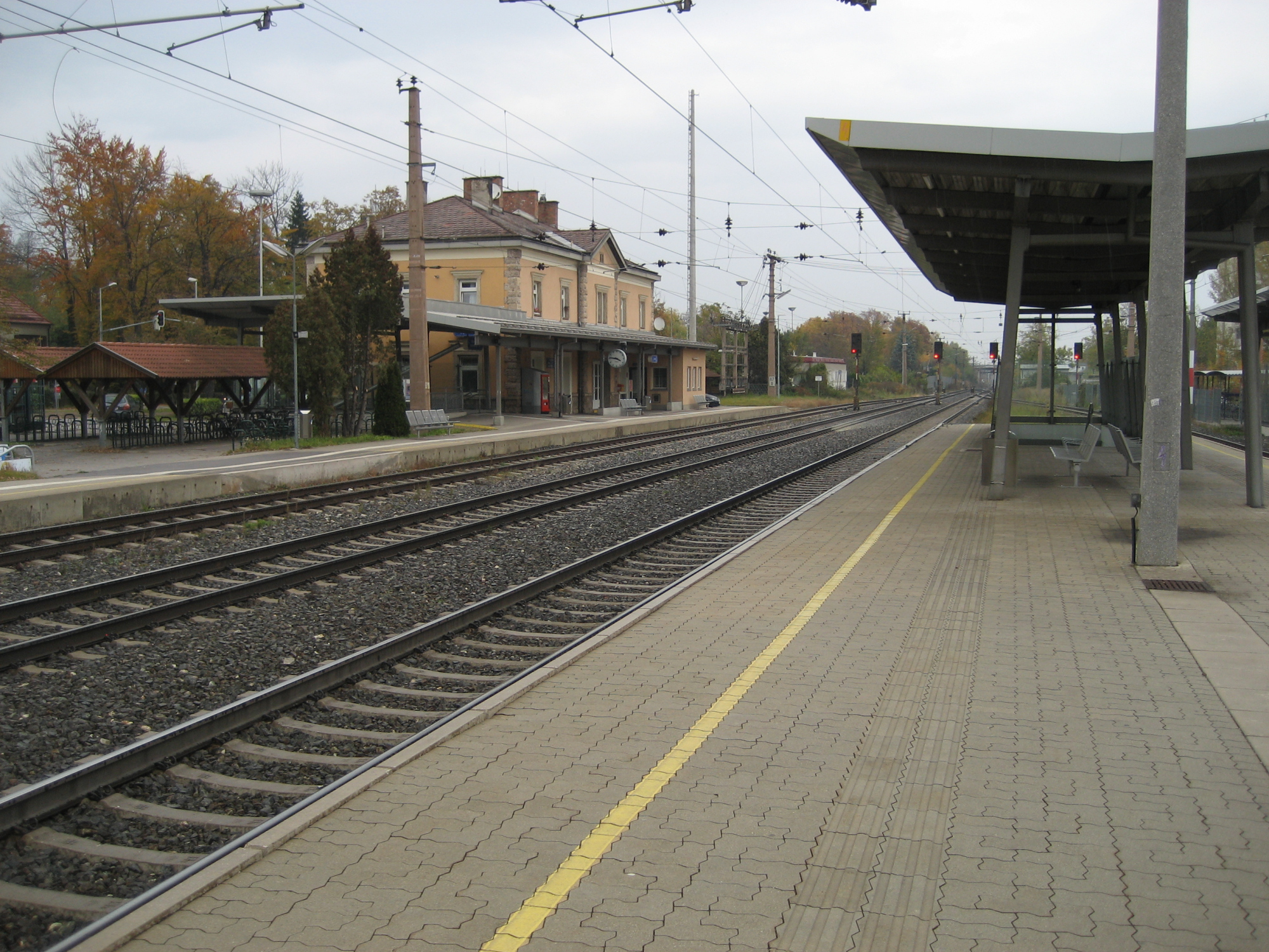 Ternitz train station in Lower Austria